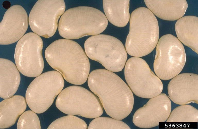 Seeds of Lima beans during a seed quality inspection exercise.